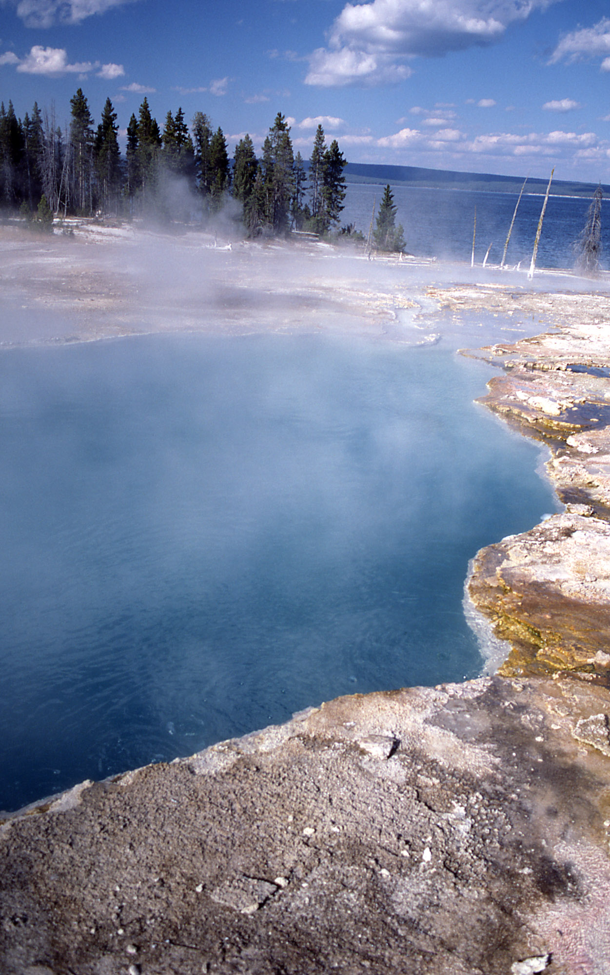 Abyss Pool; Hot Springs, West Thumb area of Yellowstone National Park